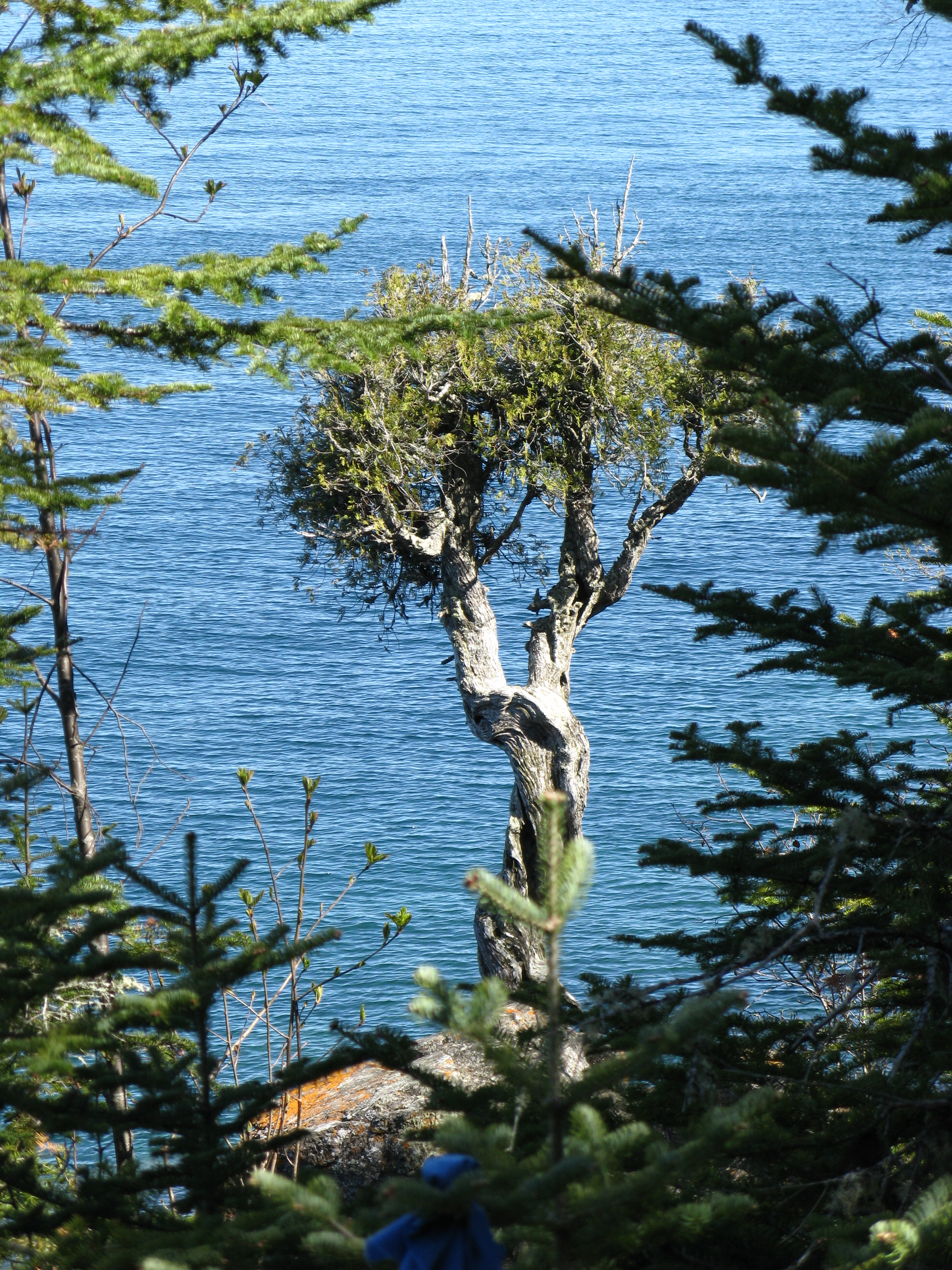 Picture of the Witch Tree in Grand Portage, Minnesota.